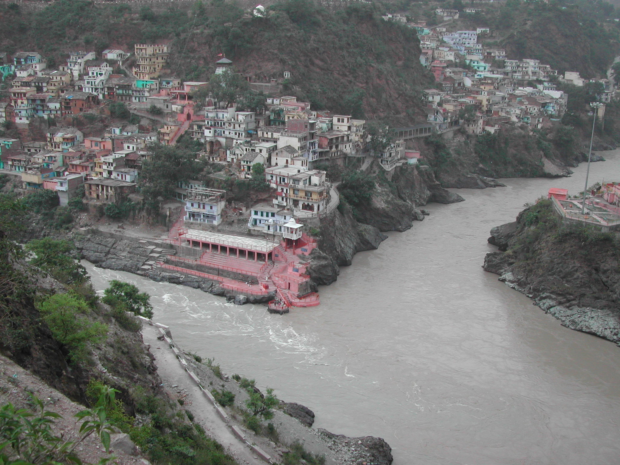 The place where river Alaknanda and Bhagirathi meet and give rise to river Ganges.